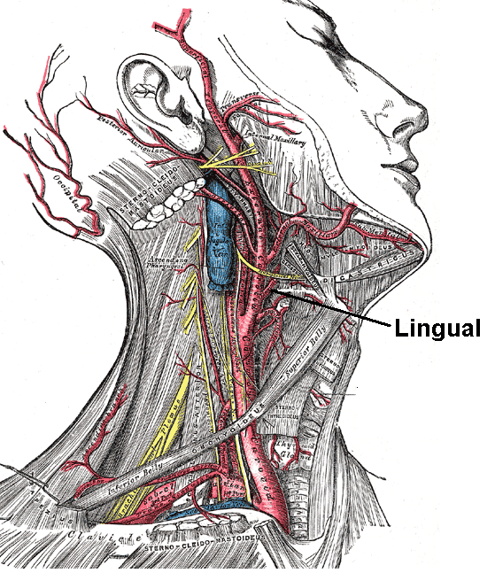 Superficial dissection of the right side of the neck, showing the carotid and subclavian arteries.